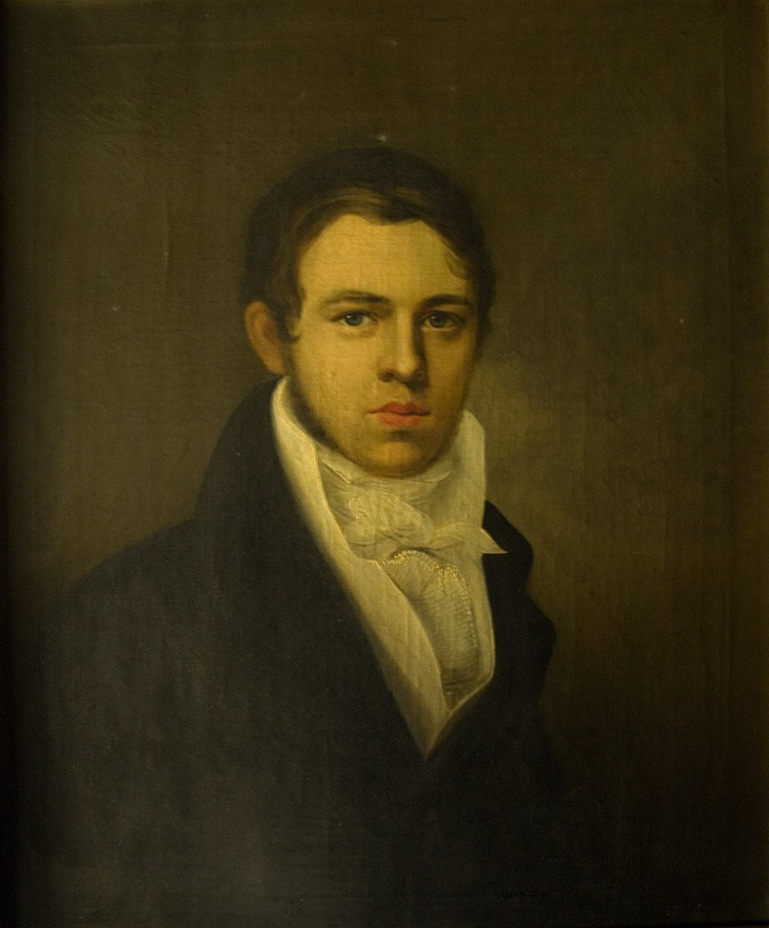 Wilhelm Amsinck (1793-1874), Hamburg lawyer